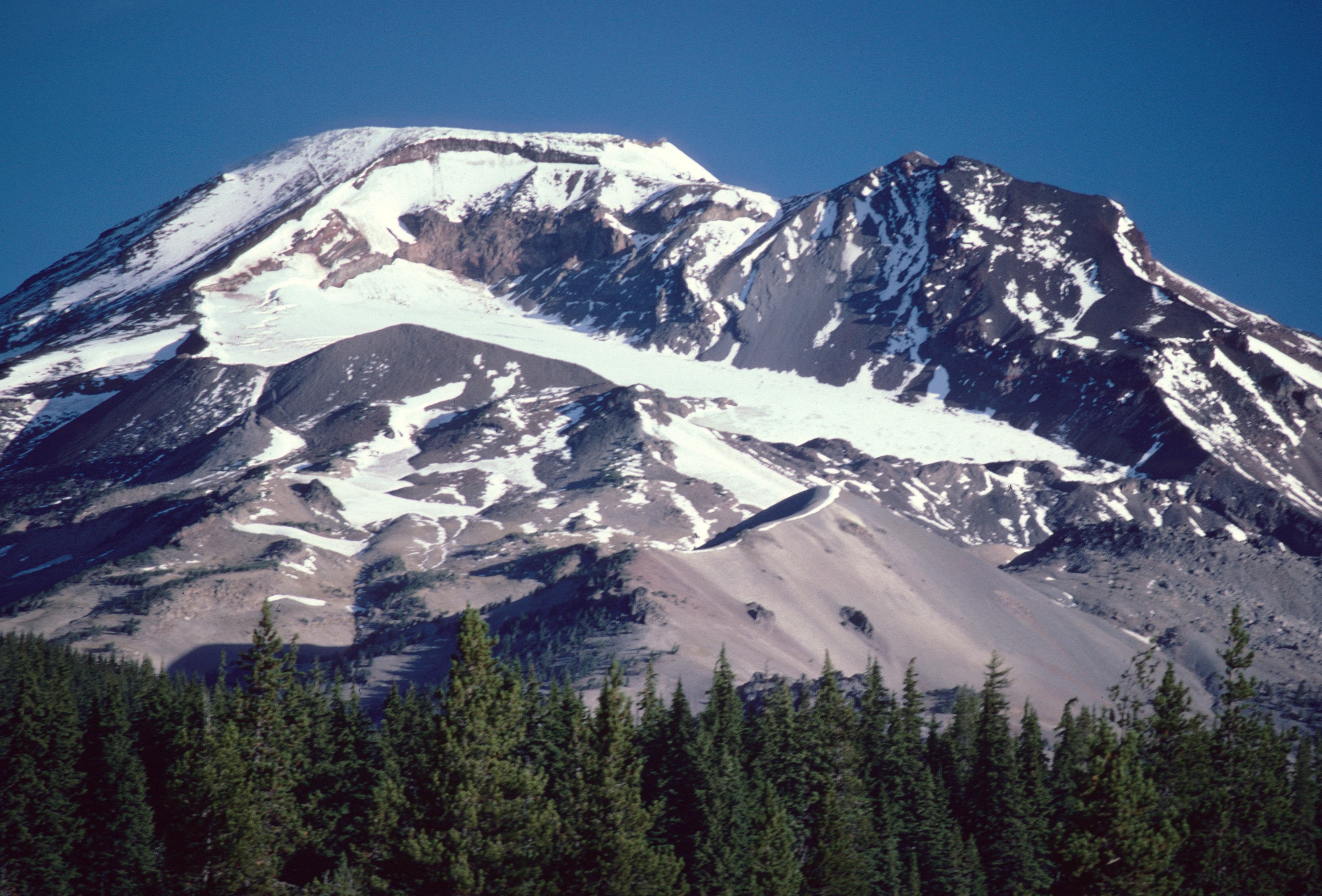 South Sister in the central Oregon Cascades as seen from the southeast